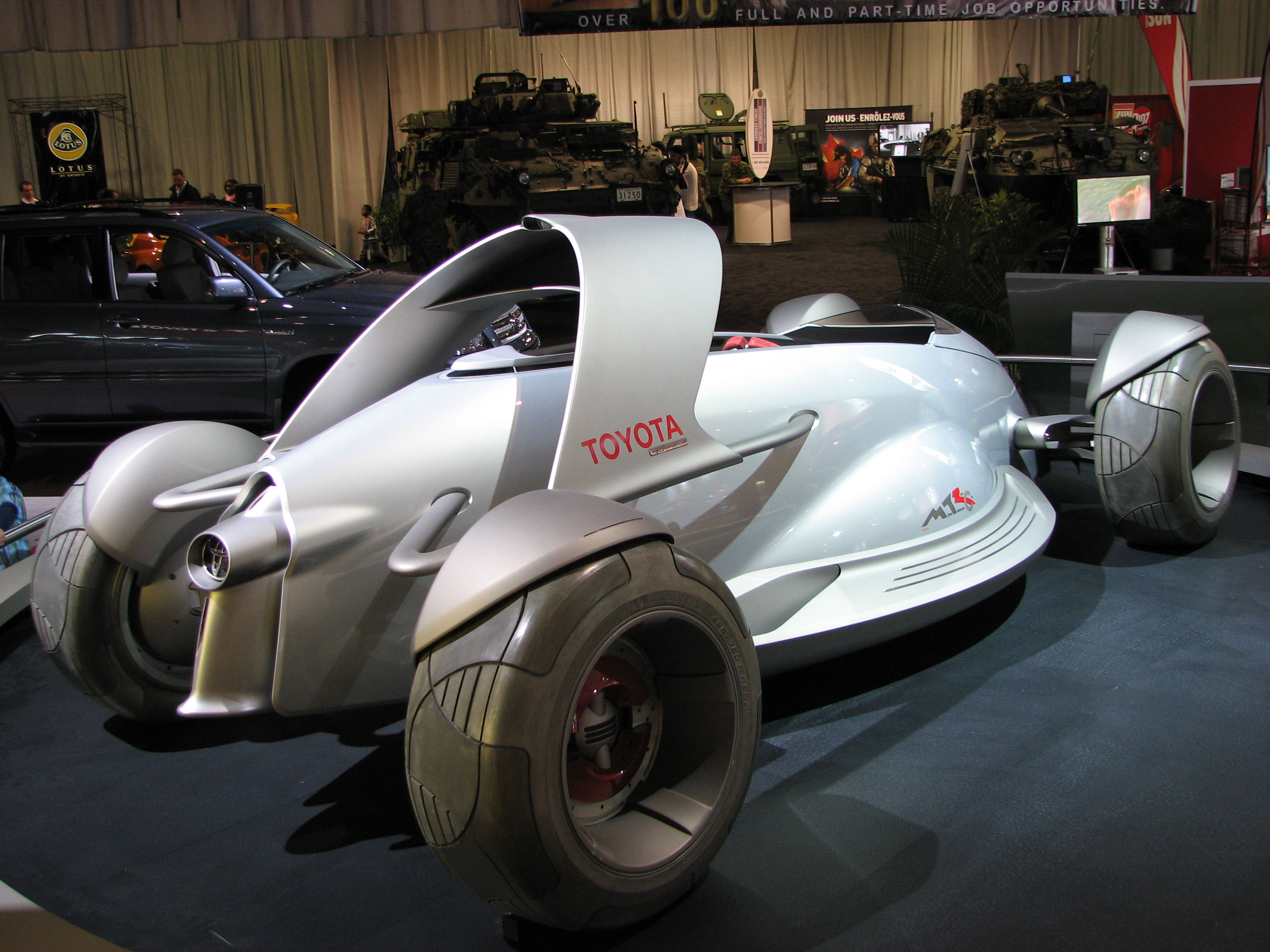 The Toyota Motor Triathlon Race Car Concept at the 2007 Canadian International AutoShow